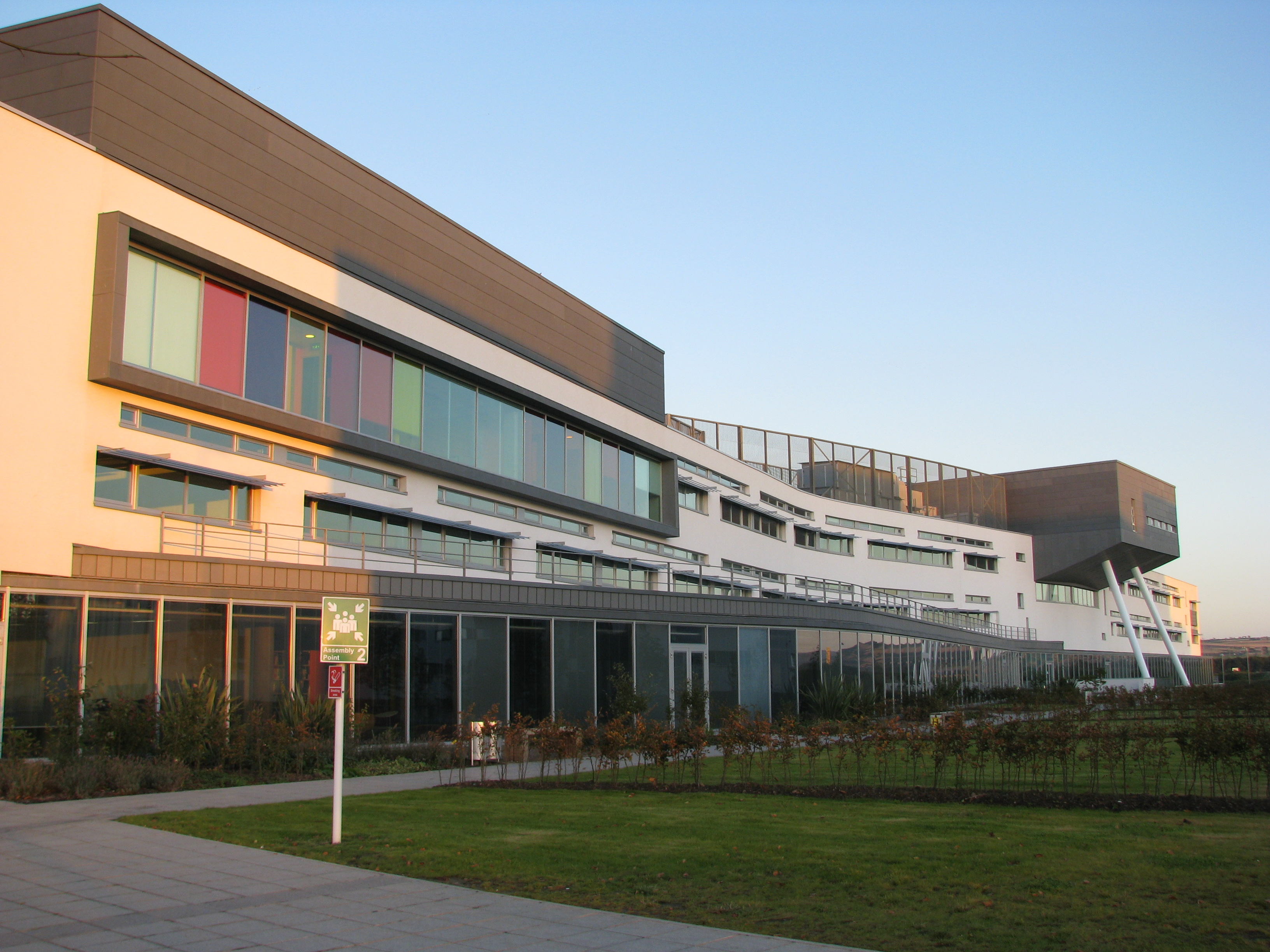 Musselburgh campus, Queen Margaret University. Completed in 2007 and opened officially in 2008.